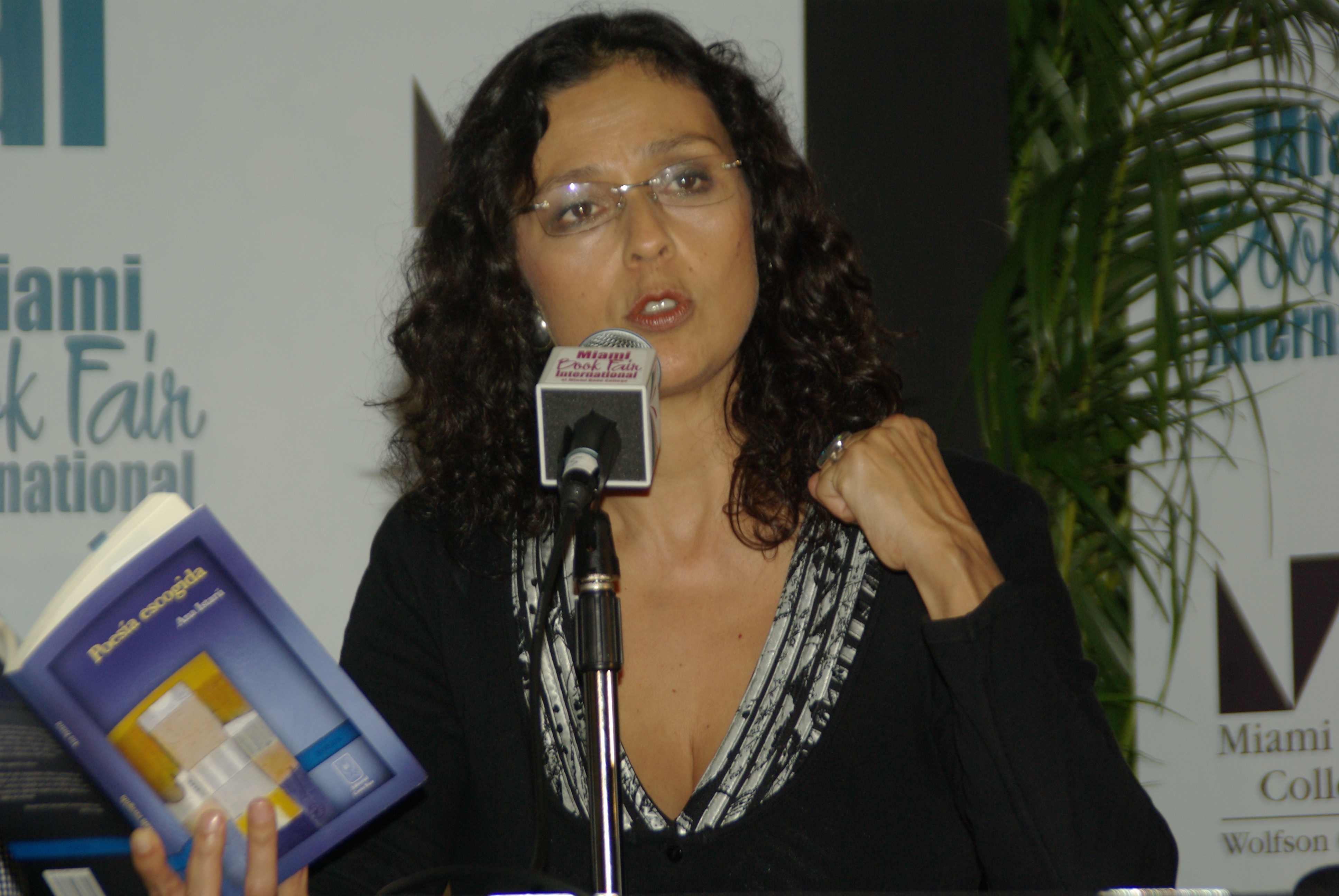 Ana Istaru at the Miami Book Fair International 2011